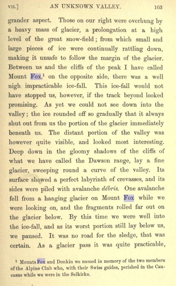 Extract from Among The Selkirk Glaciers naming Mount Fox and the Dawson Range